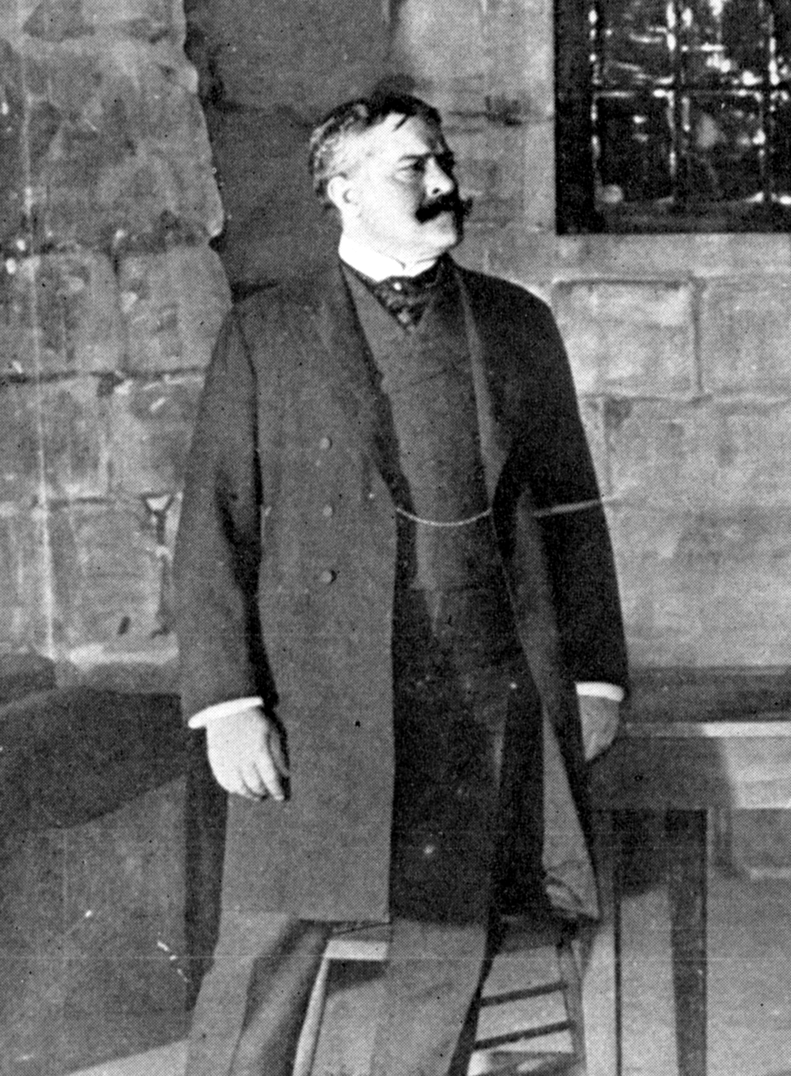 Detail of photograph of the Broadway production of Sherlock Holmes, with George Wessells as Professor Moriarty